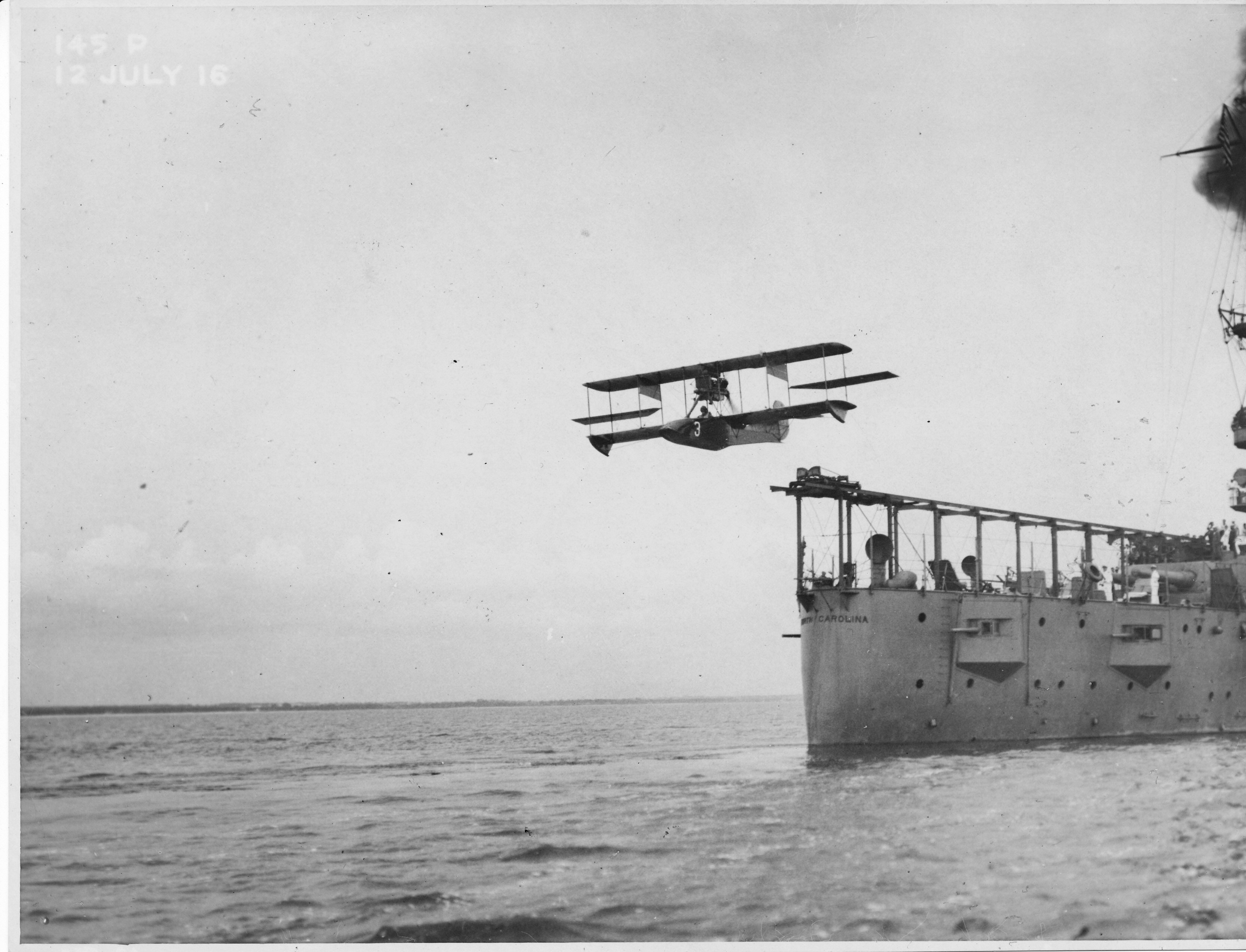 Sea plane in the air